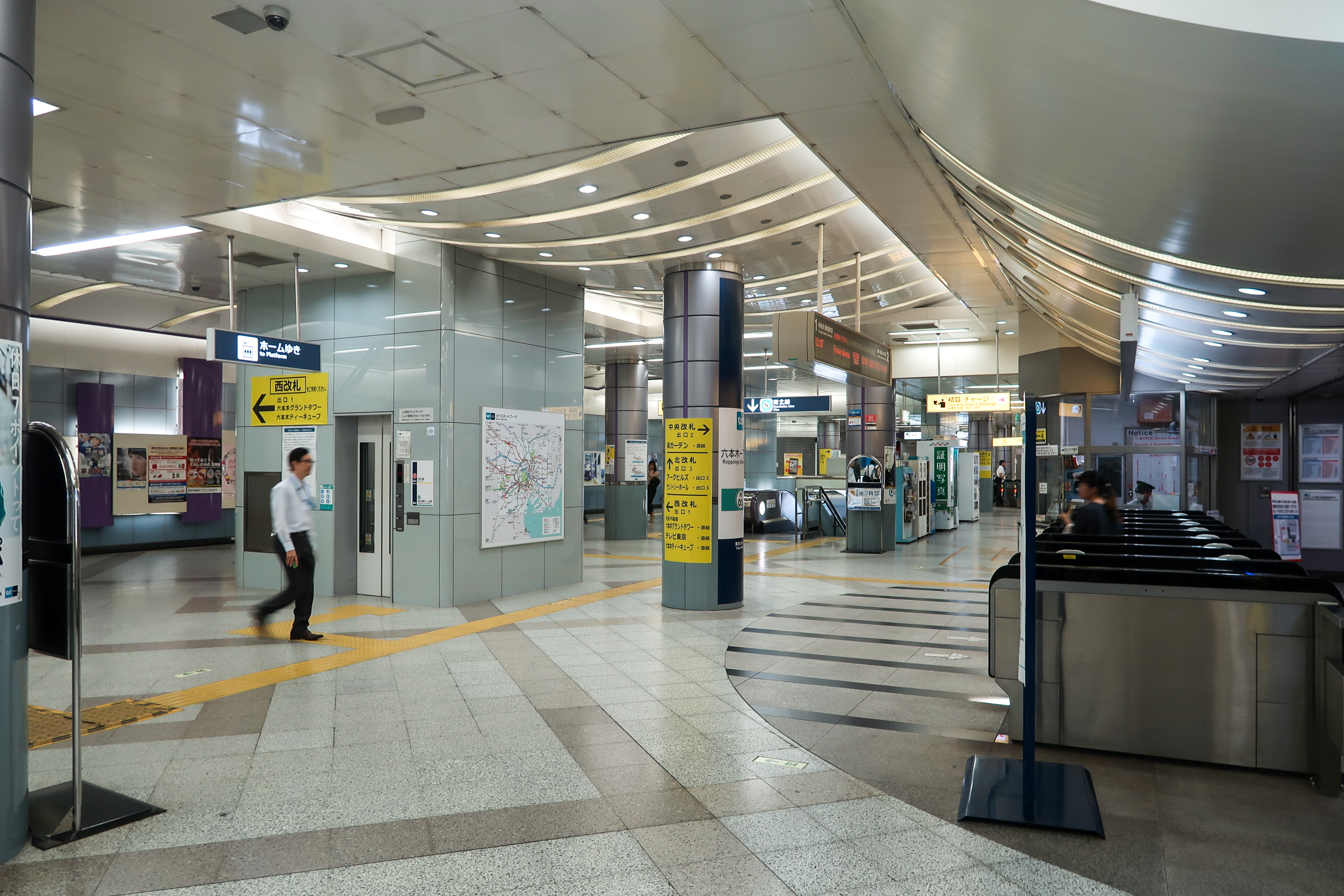 Roppongi-itchōme Station